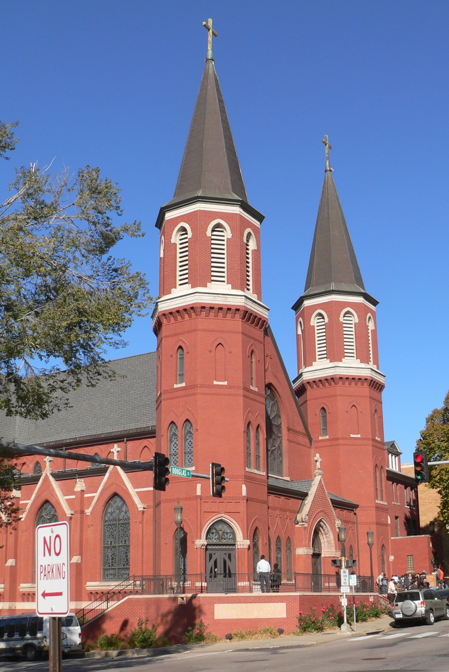 Cathedral of the Epiphany in Sioux City, Iowa; seen from the southeast.